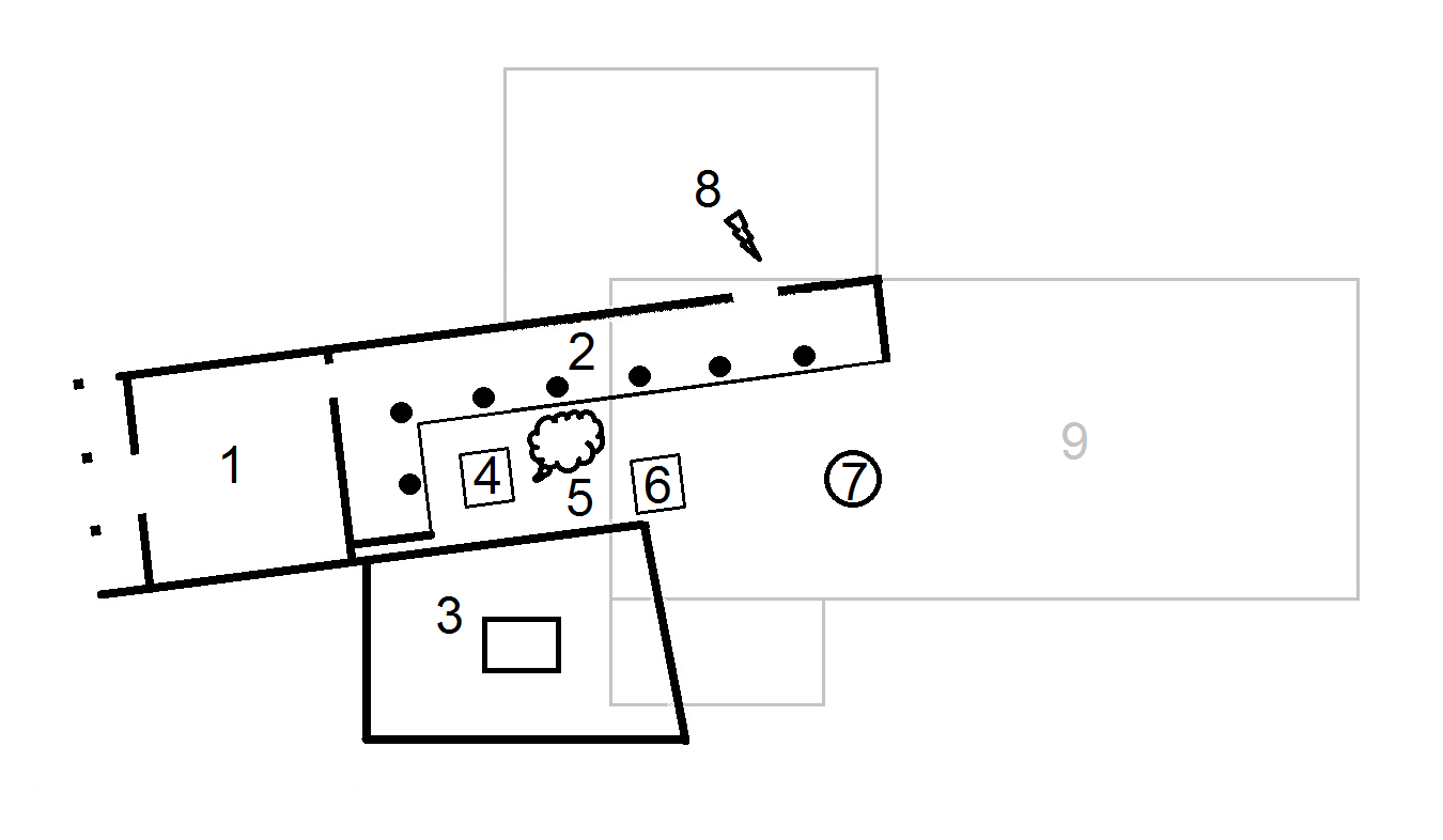 Acropolis of Athens: Plan of the Pandroseion before 421 BC: 1 = Temple of Pandrosos 2 = Stoa 3 = Cecropion 4 = Altar of Zeus Herkeios 5 = Sacred olive tree 6 = Thalassa of Poseidon 7 = Stomion 8 = Marks of Poseidon's trident 9 = Place where the Erechtheion was built later